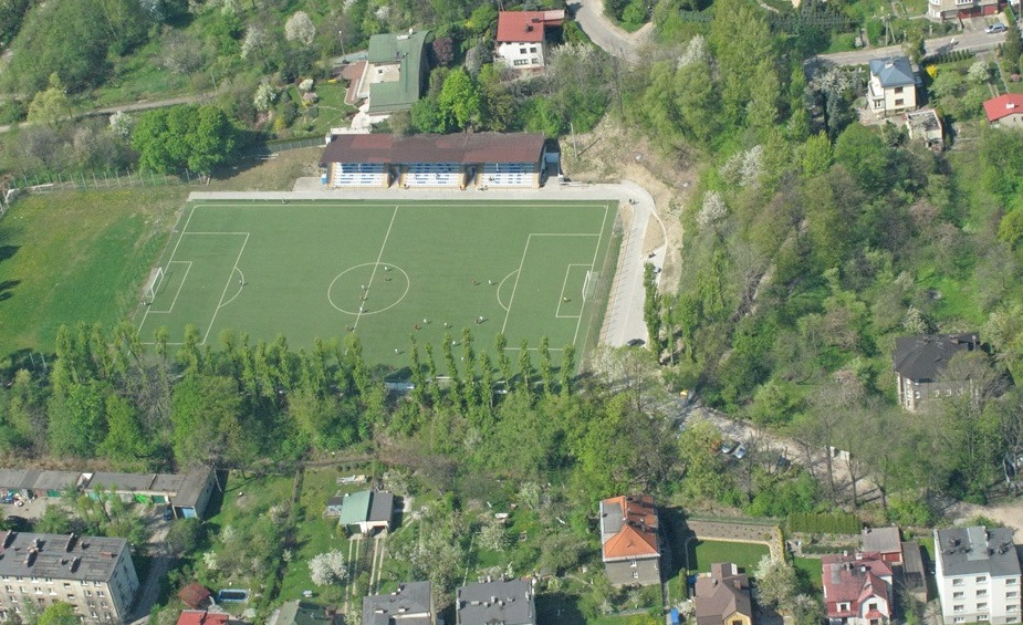 Football stadium "Na Górce" in Bielsko-Biała, Poland.